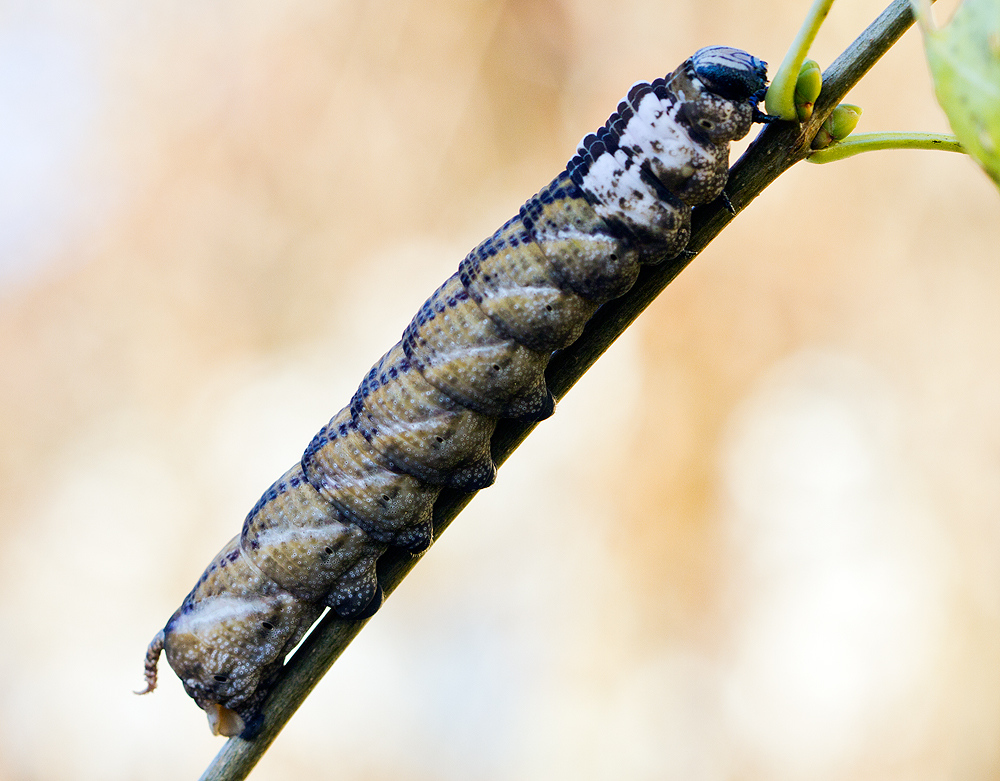 Caterpillar of Acheronta atropos brown form